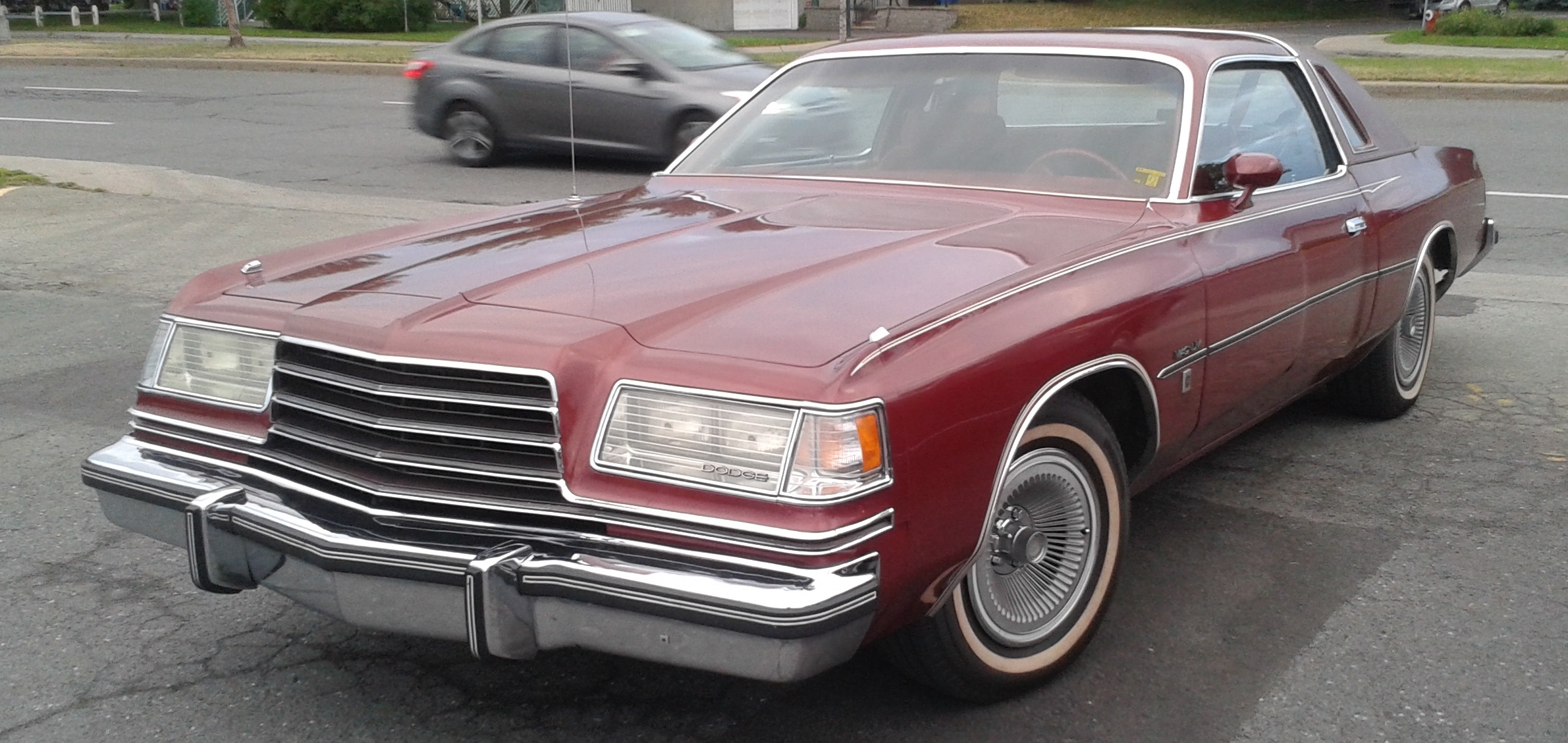 Dodge Magnum photographed at the 2014 Combos cruise night in Brossard, Quebec, Canada.